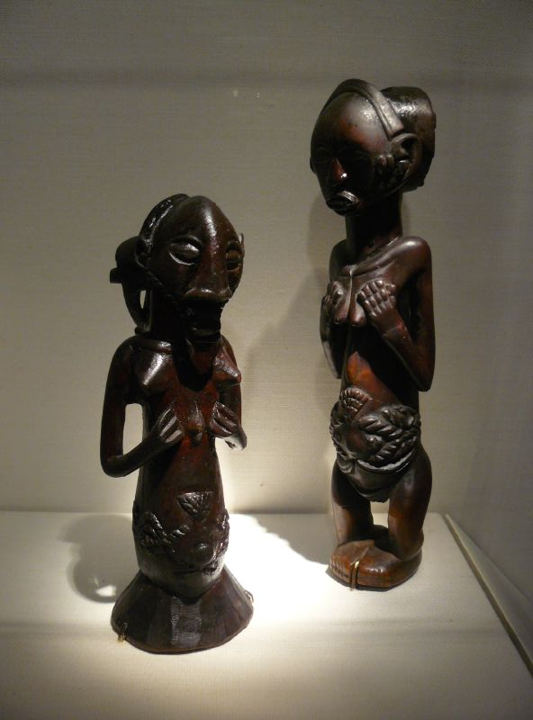 Left: Luba . Kabwelulu Gourd Figure, 19thcentury.Wood, metal, 7 3/4 x 2 7/8 x 2 3/4in. (19.7x 7.3 x 7 cm). Brooklyn Museum,MuseumExpedition 1922, Robert B. WoodwardMemorialFund, 22.1454. Right: Luba. Staff Finial, 19th century. Wood, 9 7/8 x 2 in. (25.1 x 5.1 cm). Brooklyn Museum, Museum Expedition 1922, Robert B. Woodward Memorial Fund, 22.1452.